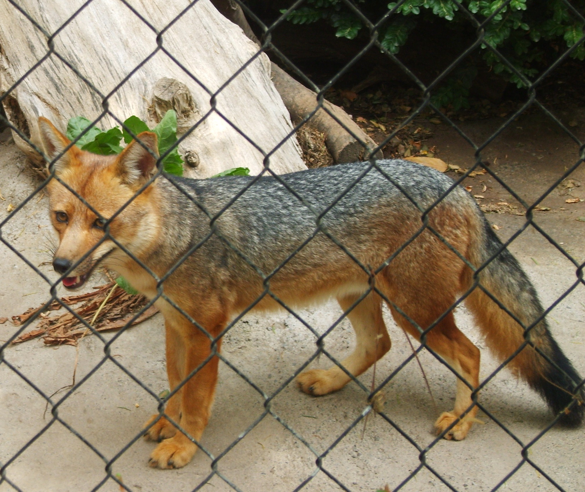 Lycalopex culpaeus culpaeus in the Buin Zoo, Chile.